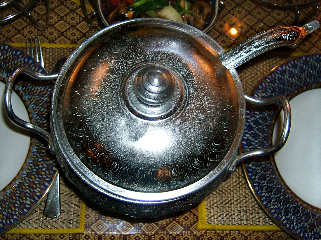 rice serving bowl in a Thai restaurant in Stuttgart, Germany